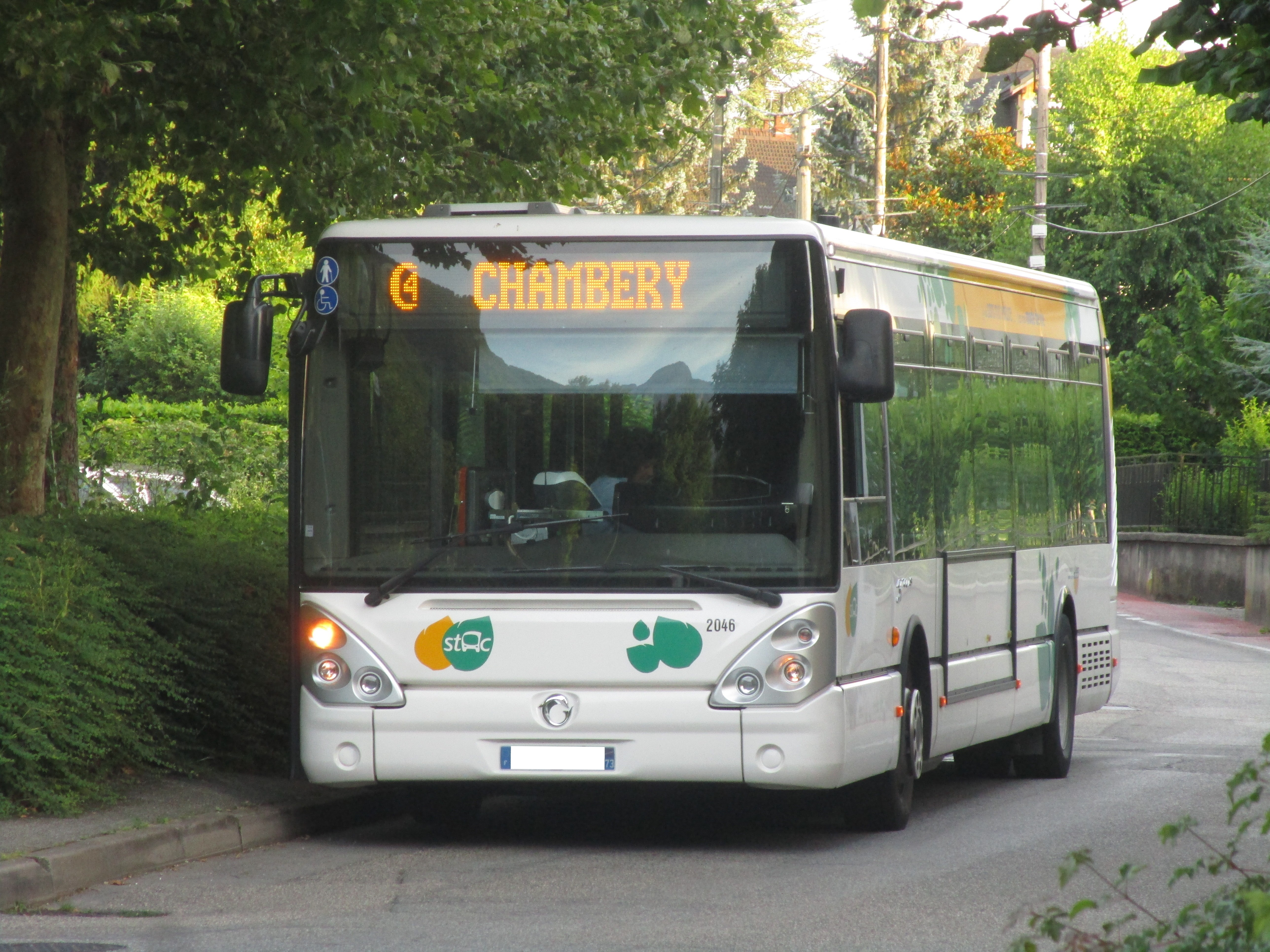 The bus Irisbus Citelis 12 n°2046 of the STAC at the call Casino Challes in Challes-les-Eaux on July 8, 2016.